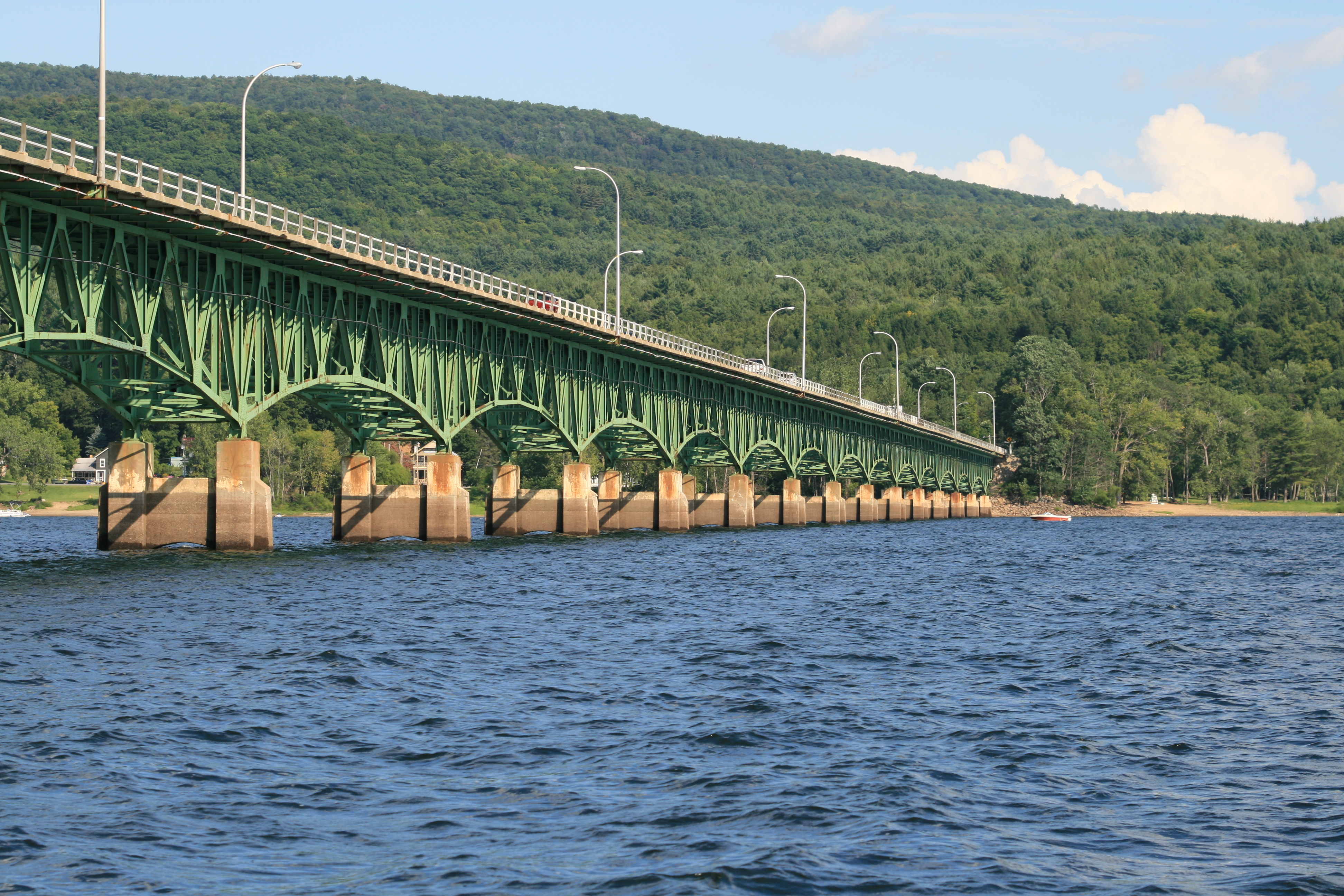 The Bachelorville Bridge over the Great Sacandaga Lake in August 2007